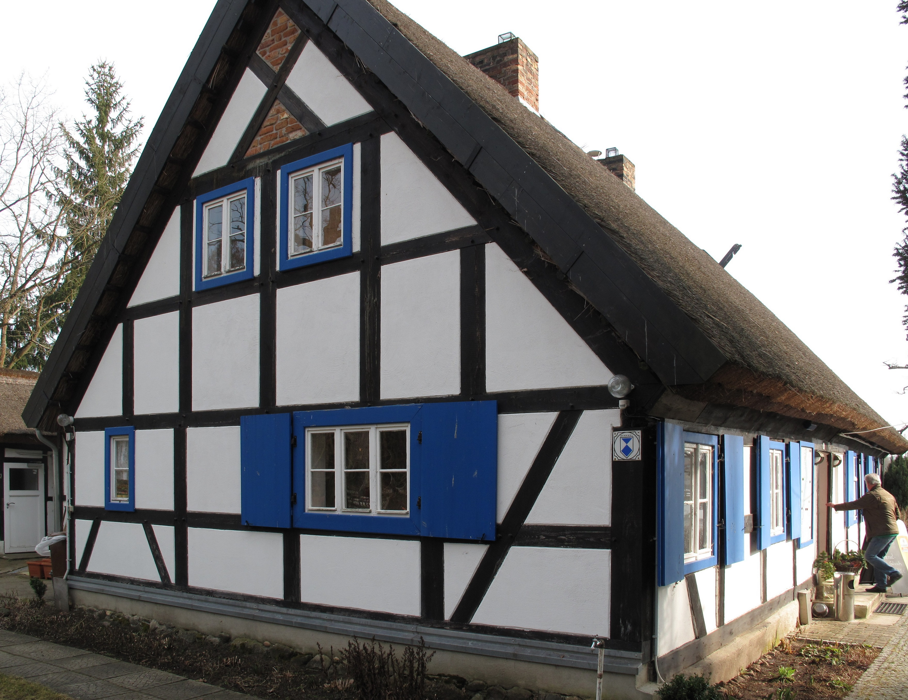 Listed building (club house of the yachtclub „Seglergemeinschaft Scharmützelsee e. V. “ (SGS)), Regattastr. 1, in „Dorf Saarow“, part of Bad Saarow in the District Oder-Spree, Brandenburg, Germany. The house was built around 1777/80 and part of the manor Saarow (today: Eibenhof).